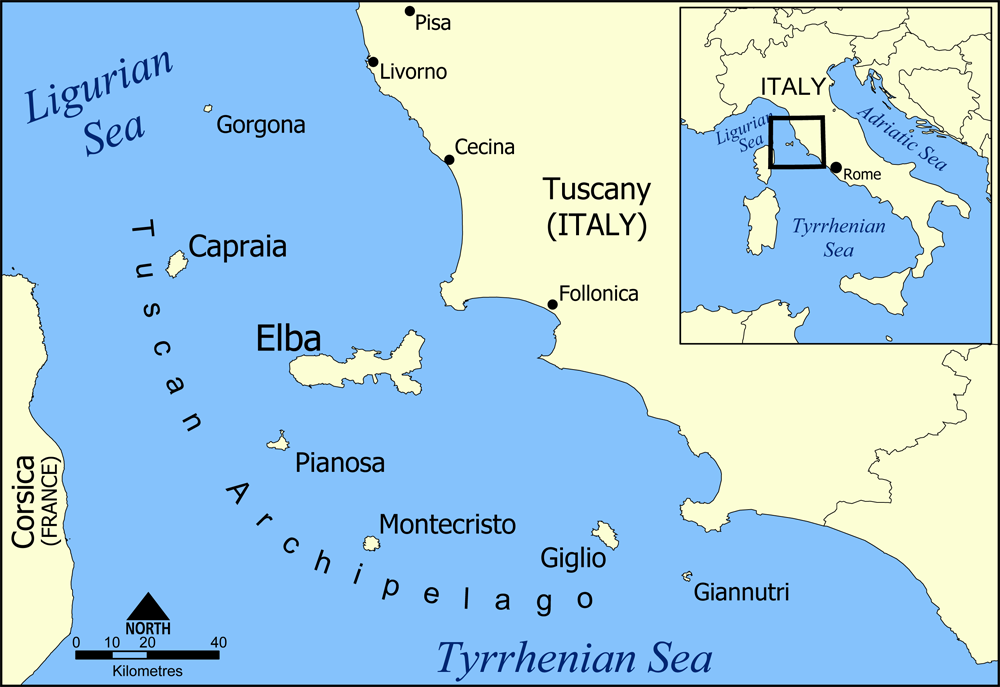 A map of the Tuscan archipelago, including the islands Elba, Capraia, Giglio, Montecristo, Pianosa, Gorgona, and Giannutri.